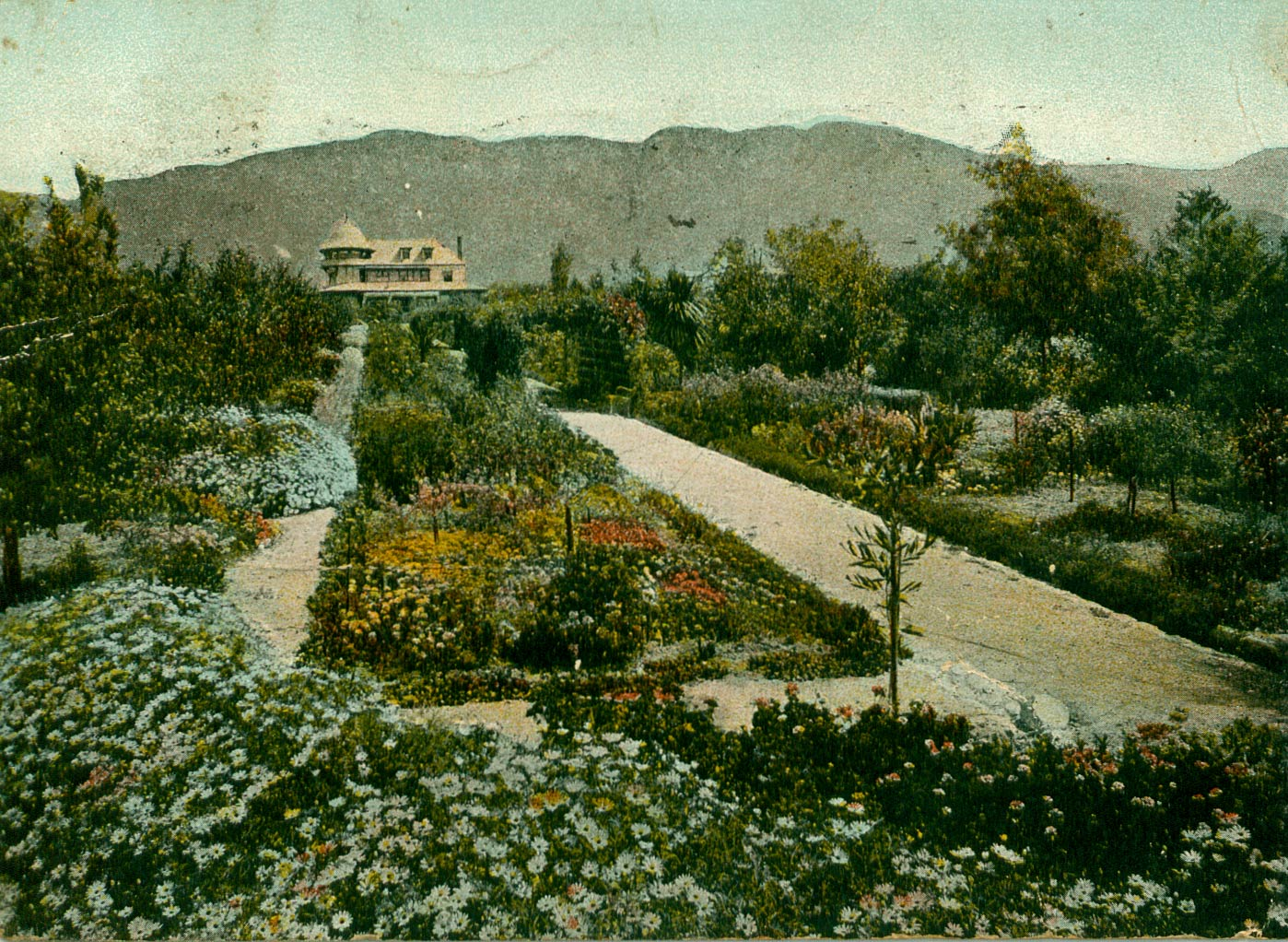 Postcard No. 3010 entitled "A Residence in California". Made in Germany. Mailed in April, 1905, the card does not have a split back.